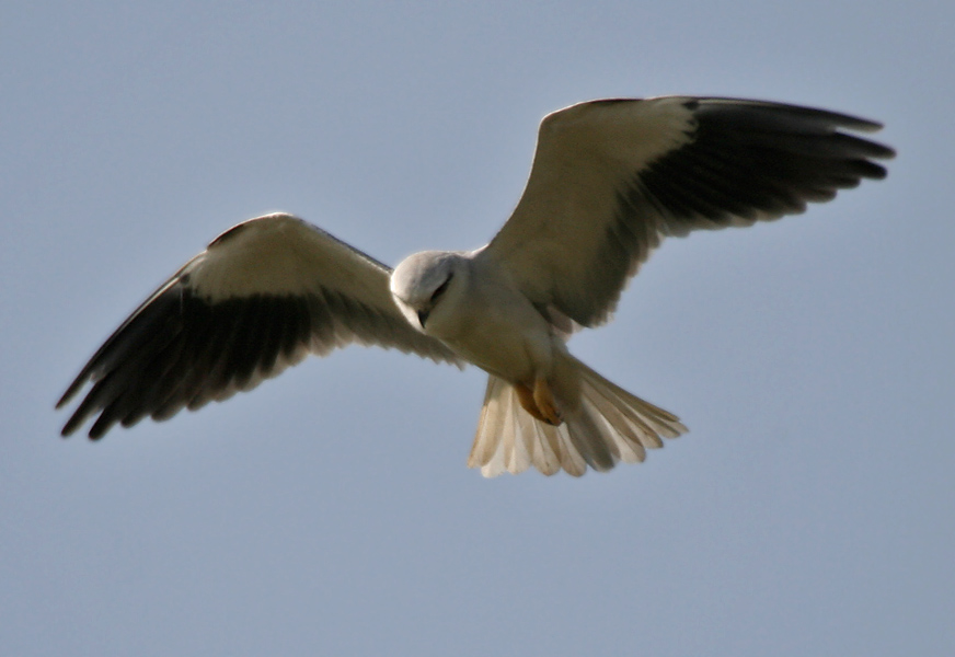 Black-winged Kite Elanus caeruleus in Hyderabad, India.